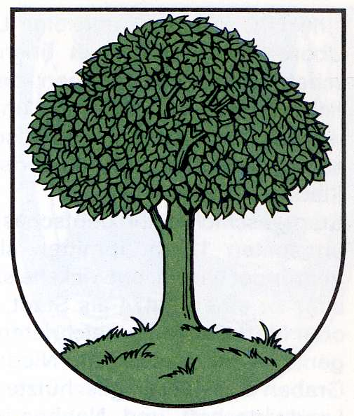 former Coat of arms of Schönewalde